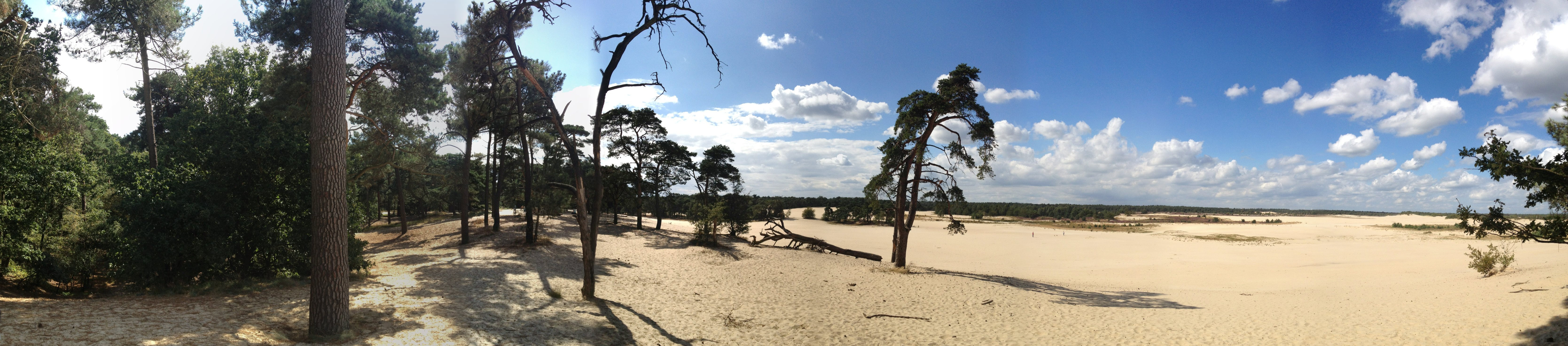 Part of the national park Loonse en Drunense Duinen in The Netherlands